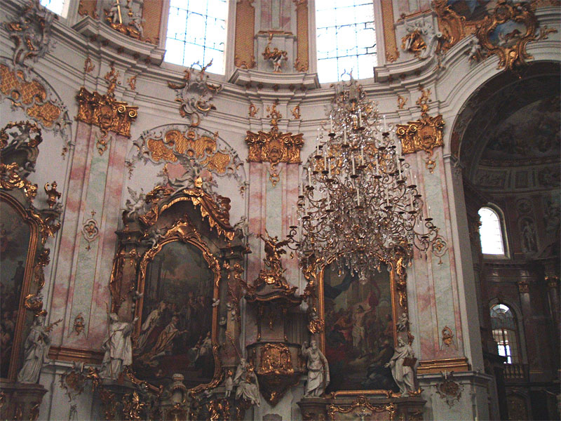 I take the photo myself in april 2004